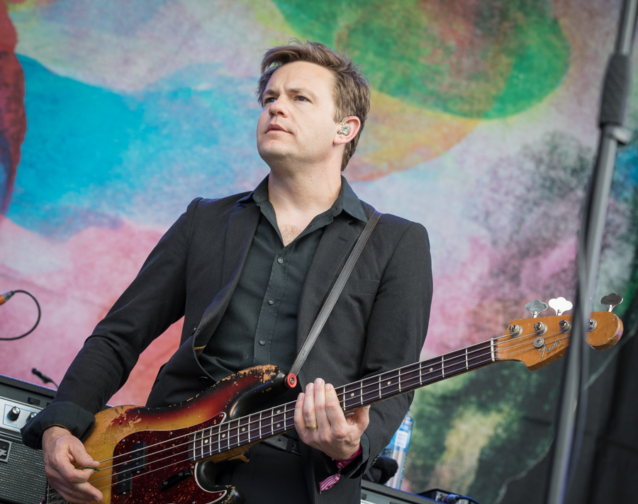 Rob Pope with Spoon at the main stage in the Vigeland Park. The concert was part of Piknik i Parken and took place on 22. June 2017 in Oslo. Lineup: Britt Daniel (guitar and vocal), Jim Eno (drums), Rob Pope (bass guitar), Alex Fischel (keyboard) and Eric Harvey (guitar).